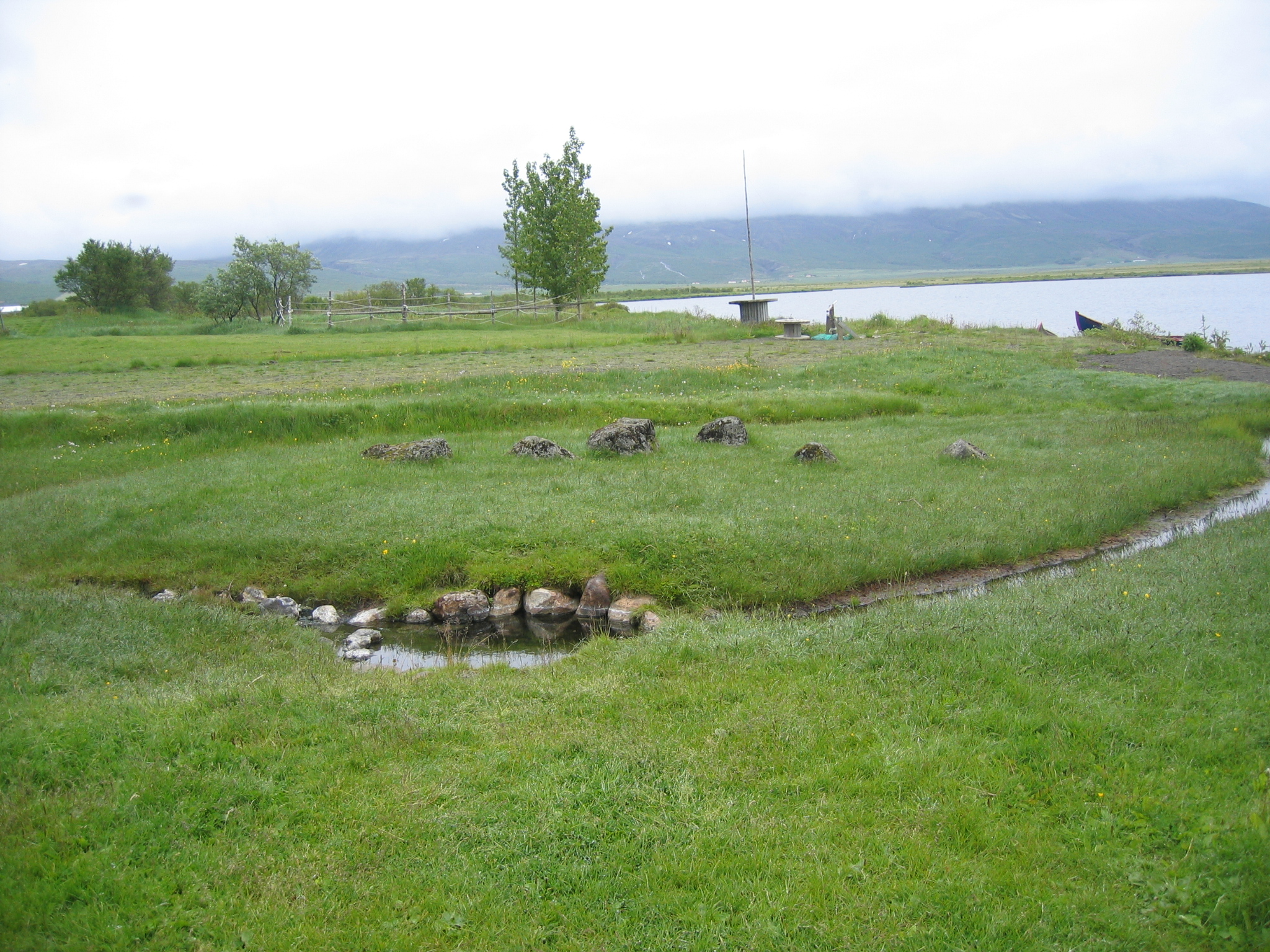 Vígðalaug at lake Laugarvatn, Iceland